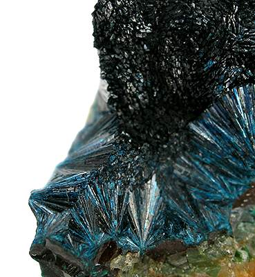 Clinoclase Locality: United St. Day Mines, Cornwall, England Size: thumbnail, 2.8 x 2.3 x 2.0 cm Clinoclase Brilliant blue acicular crystals of clinoclase, forming rosettes and ball-shaped aggregates, on a bit of matrix. This is a beautiful thumbnail with unusually intense color. It was most likely found in the early to mid 1800s when this region was productive of specimens. Formerly in the collection and with label of Willard Perkins, the collector who invented the so-called "Perky Box" for thumbnails. Ex. John and Linda Stimson Collection.